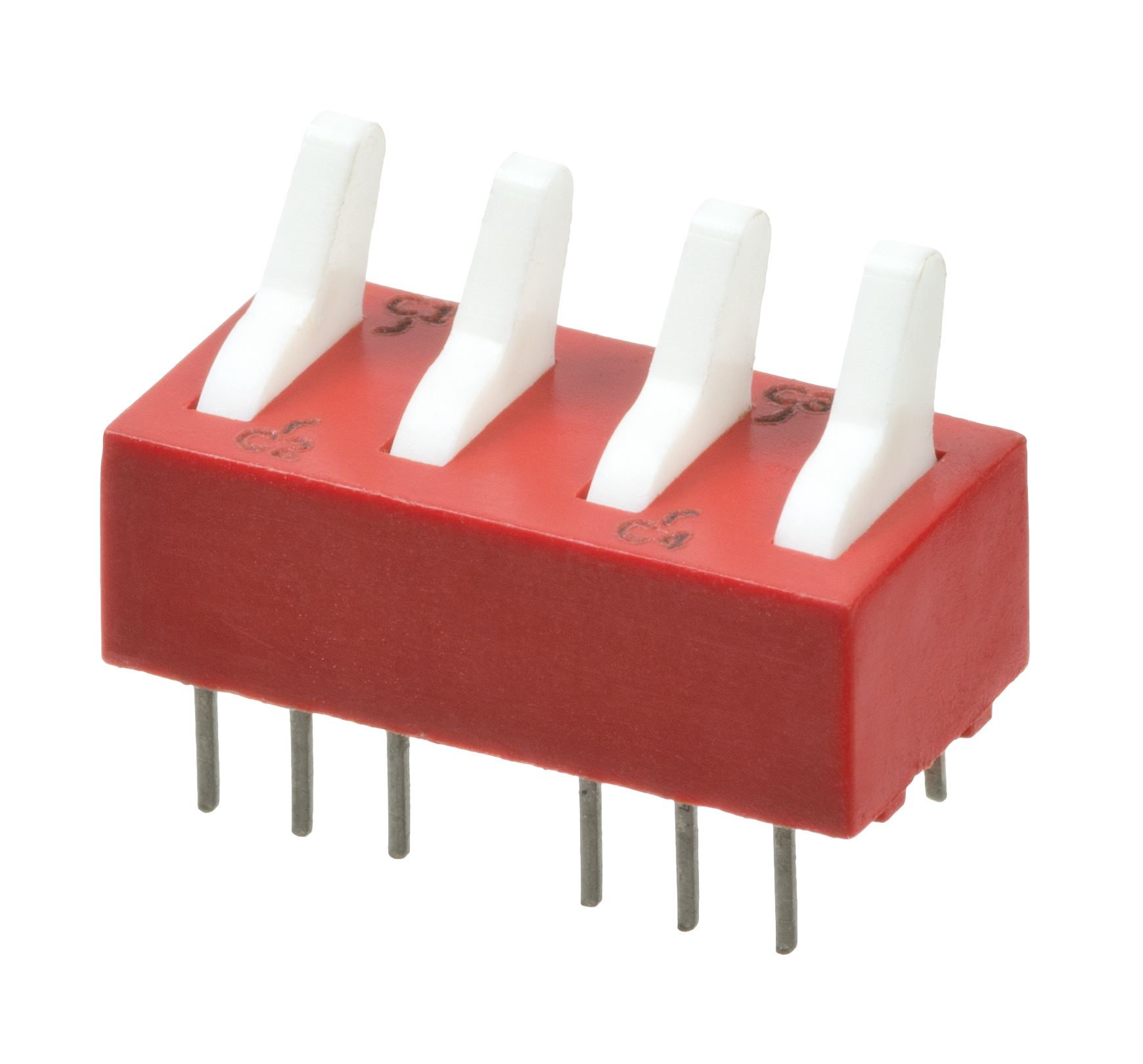 A four switch, a small component used for building electronics (usually on breadboards) that turns an array of connections on or off.